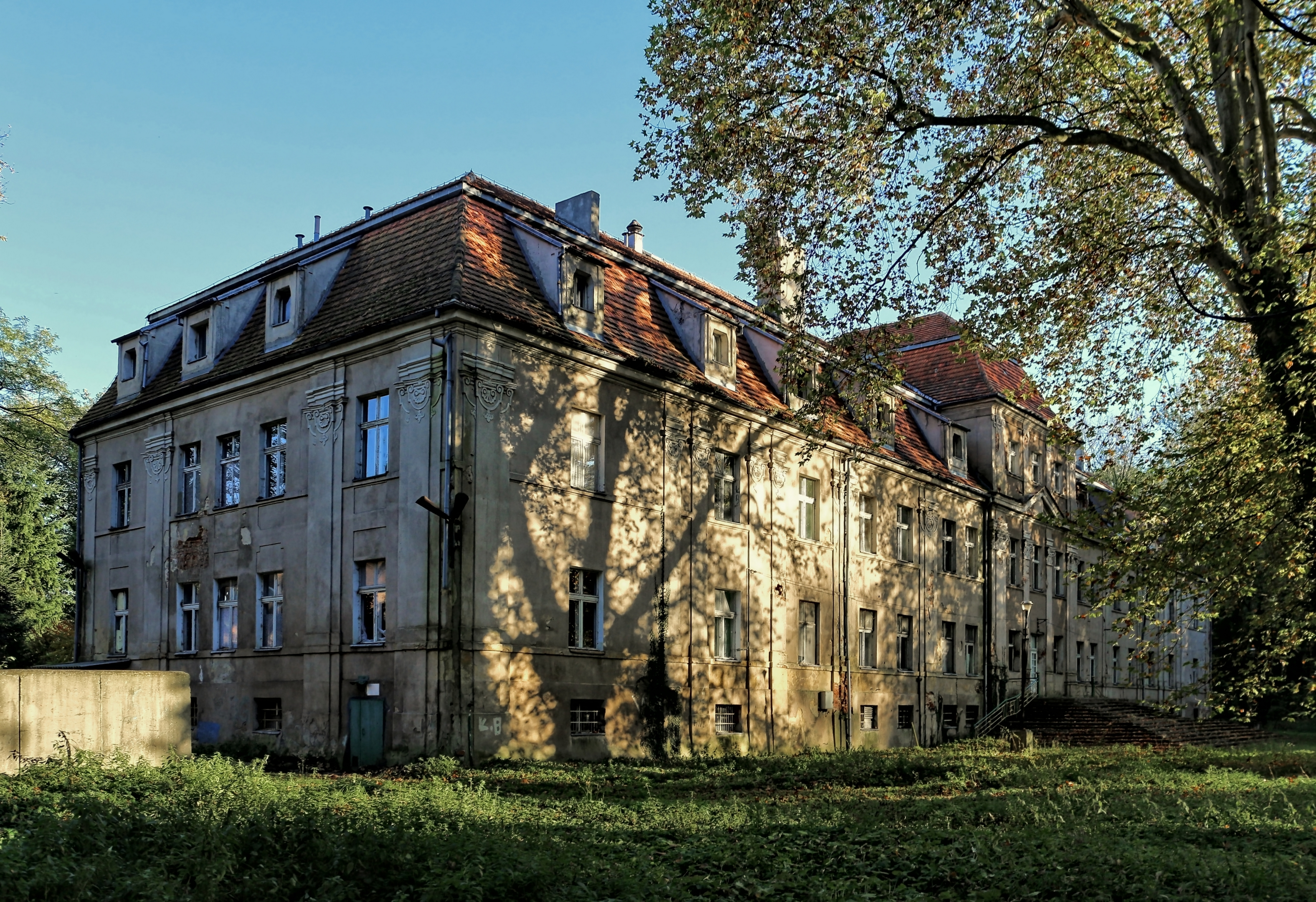 Palace in Sława